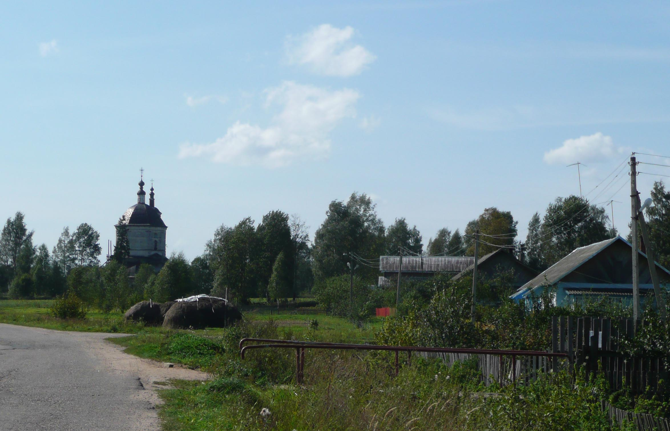 village Buylovo, Tver region, Russia